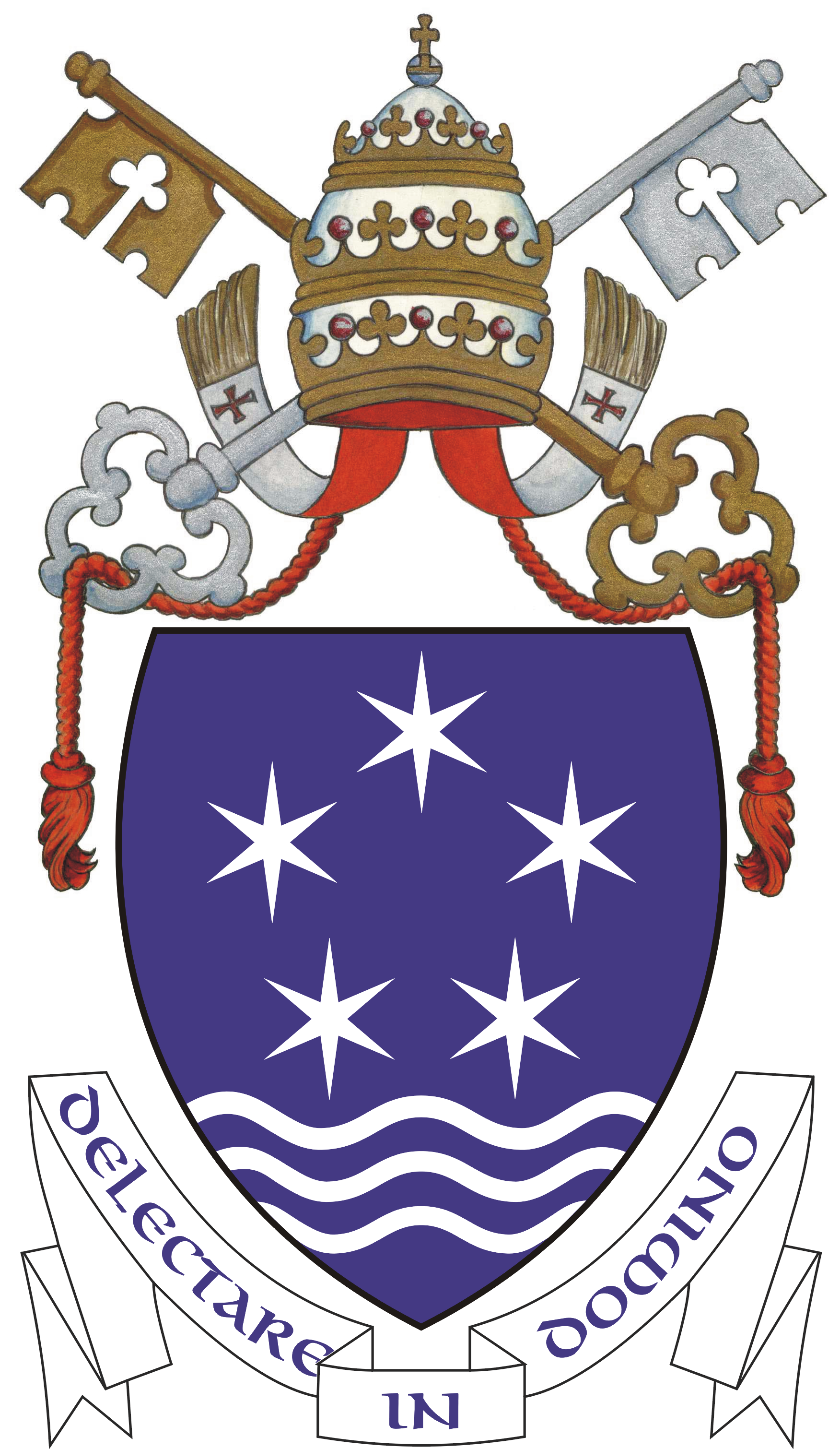 Pontificio Collegio Nepomuceno, coat of arms